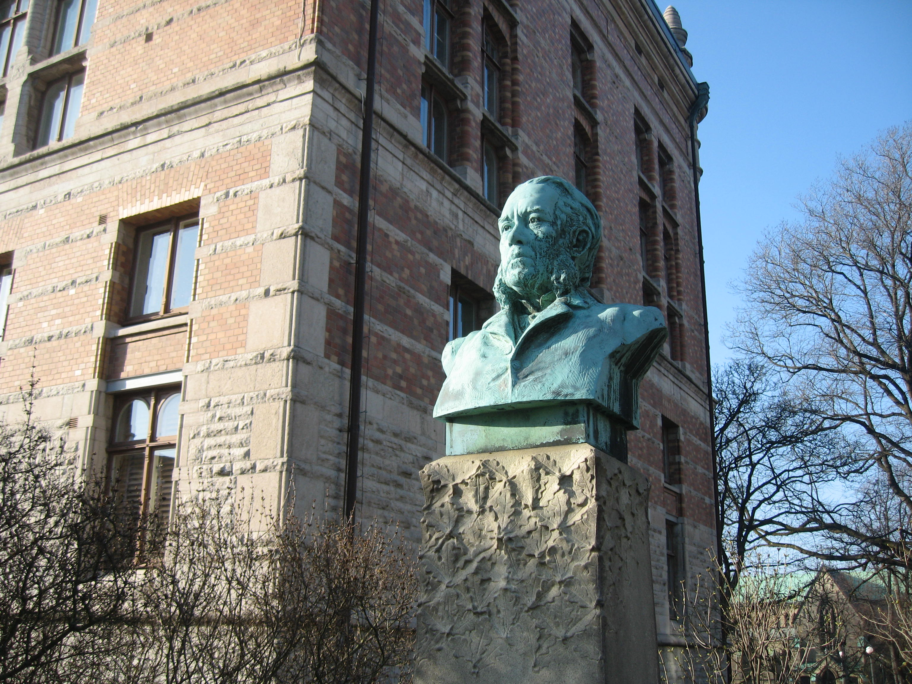 Bust of Parliament member Sven Adolf Hedlund, in front of Göteborg University's library of course literature and journals.